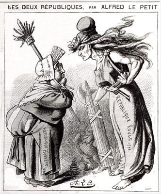 Cartoon depicting the Socialist French Republic (right) against the Conservative French Republic (left), from Le Grelot, 1872.